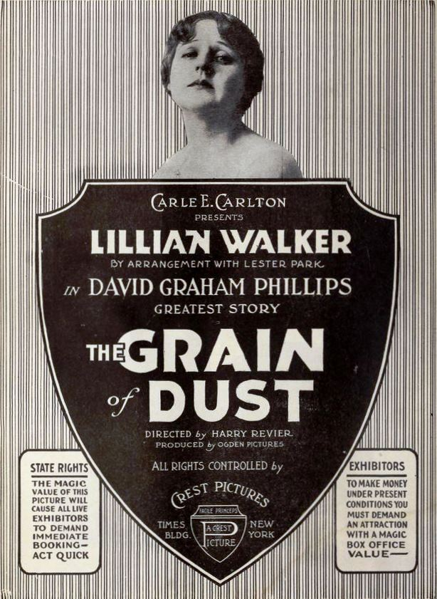 Advertisement for the American film The Grain of Dust (1918) with Lillian Walker, on page 4 of the January 5, 1918 Exhibitors Herald